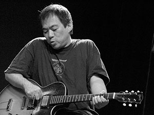 Japanese jazz musician Otomo Yoshihide